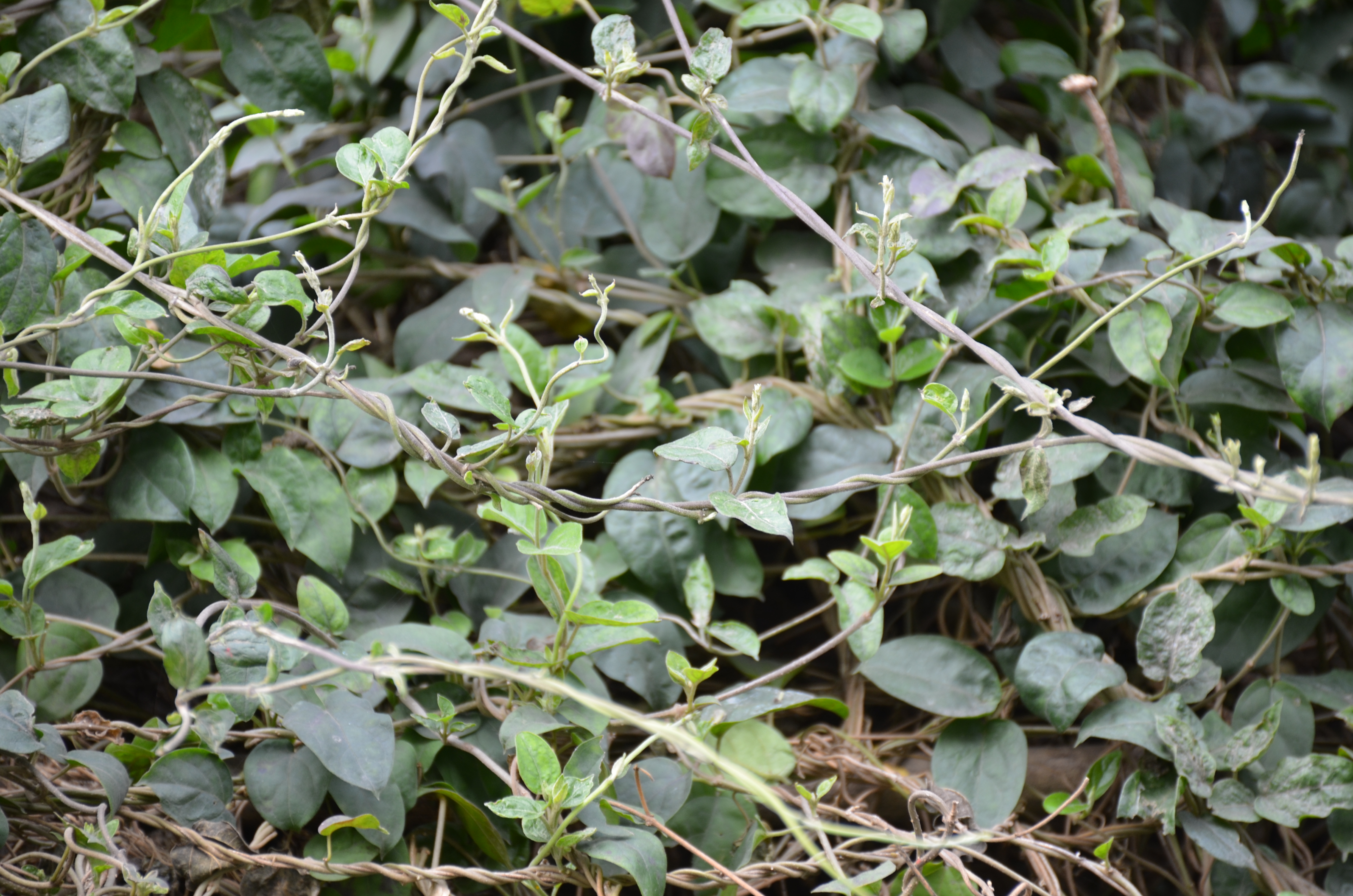 গুড়মার (Gymnema sylvestre)